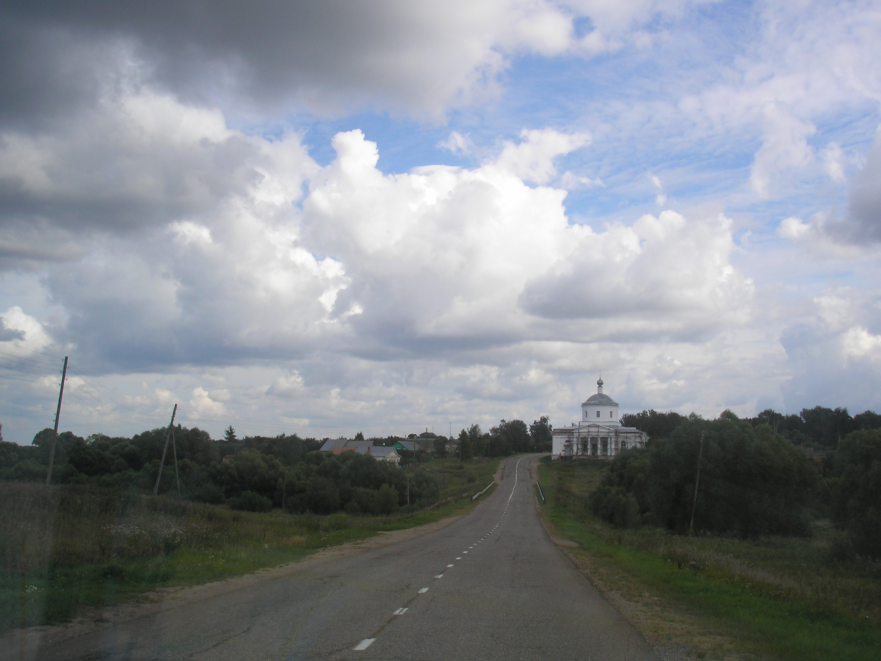 Village Kabanskoe Pereslavsky District of Yaroslavl Oblast